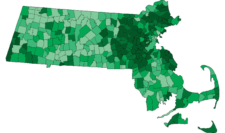 Massachusetts locations by per capita income, according to data provided by the 2000 United States Census for each community, darker green ($32,117+), dark green ($26,400-$32,117), pure green ($23,711-$26,400), light green ($21,072-$23,711) and pastel green ($12,400-$21,072)